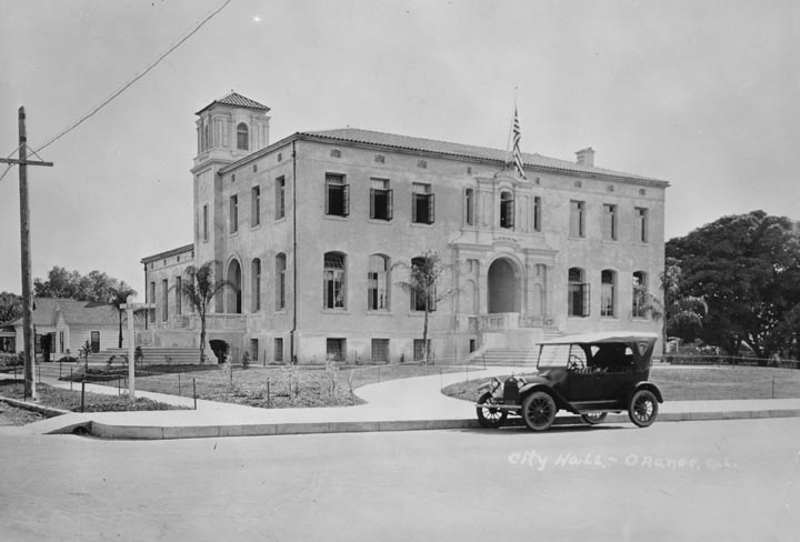 Orange City Hall, circa 1921.